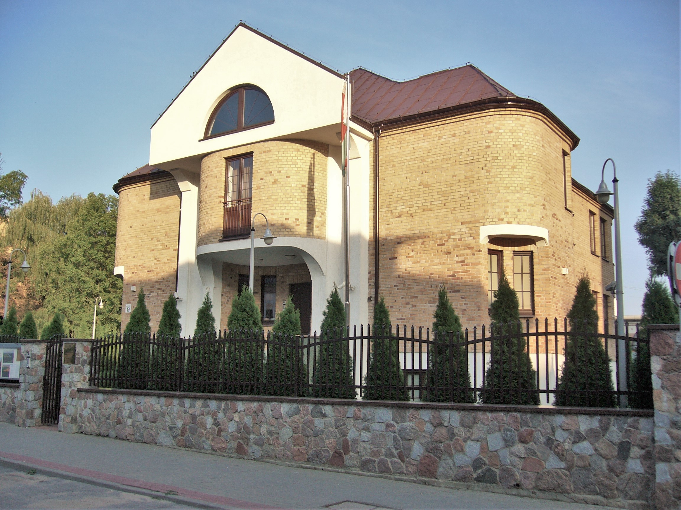 Building of Consulate General of the Republic of Belarus in Białystok, Elektryczna 9 street.